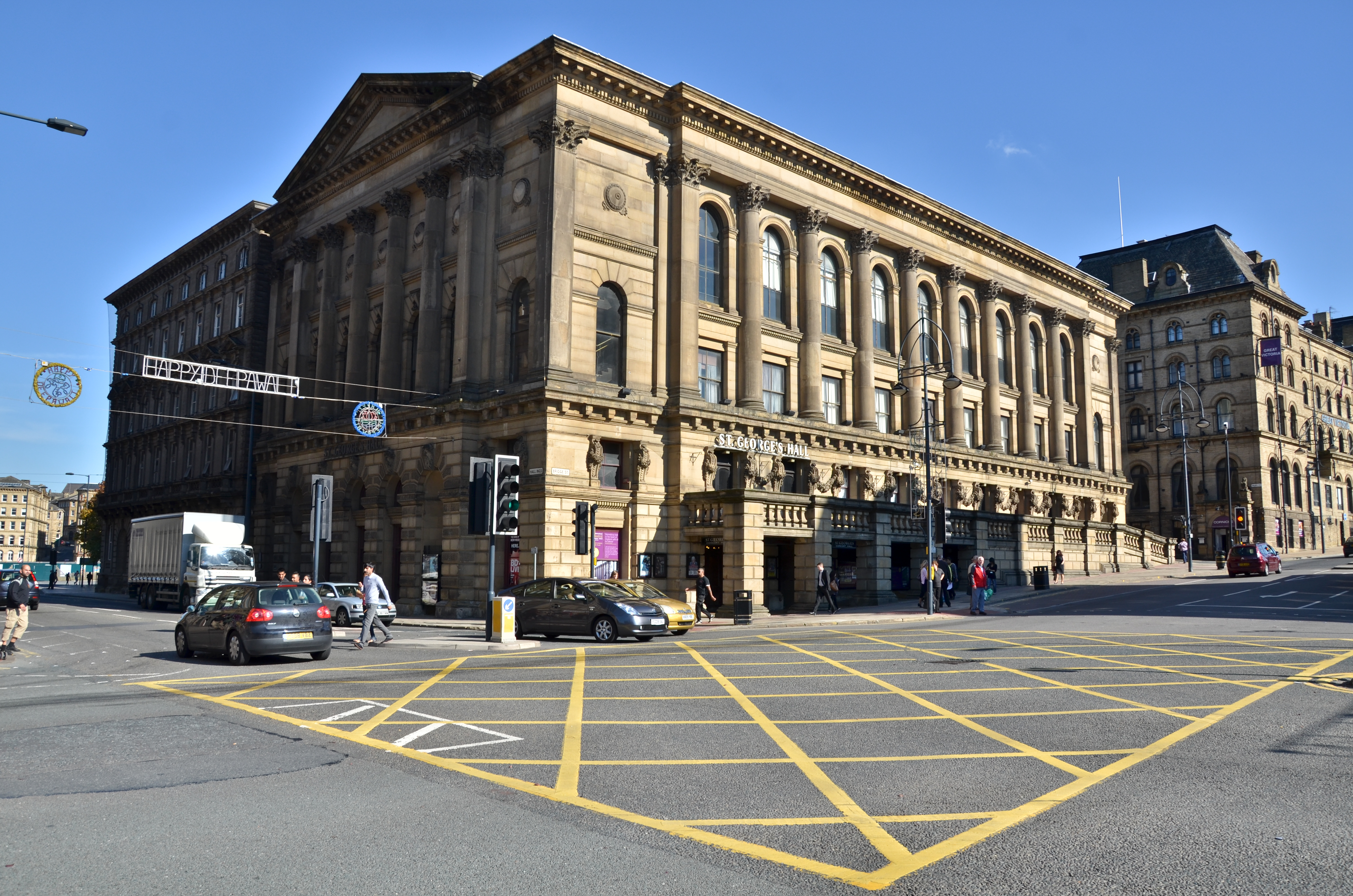 St George's Hall, Bradford, United Kingdom.